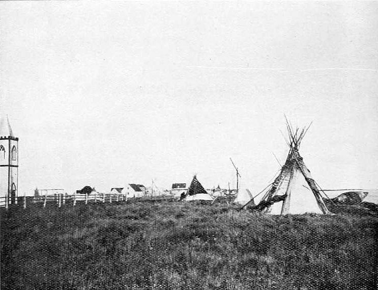 Fort Albany, Ontario.